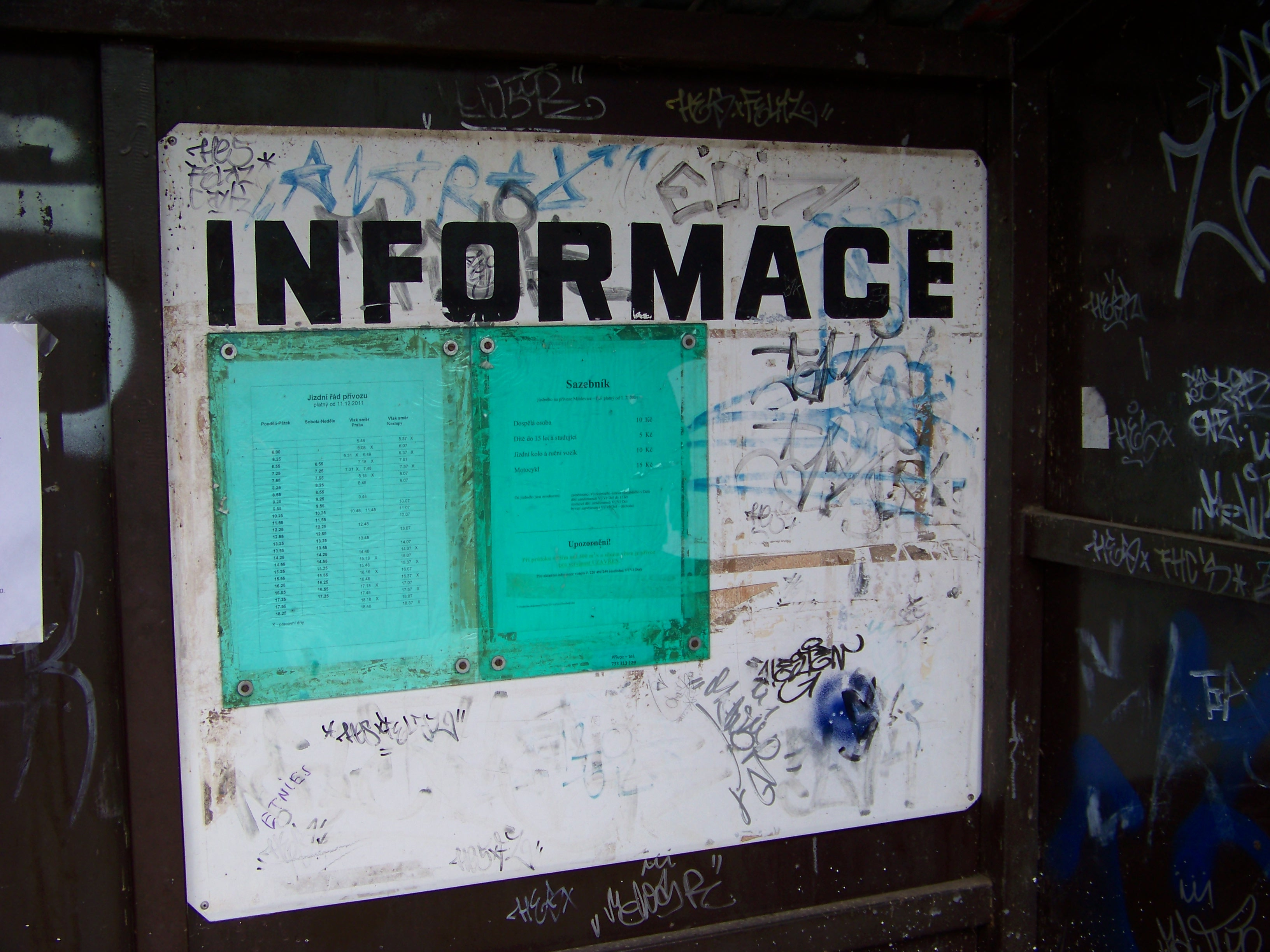 Libčice nad Vltavou, Prague-West District, Central Bohemian Region, the Czech Republic. Vltava ferry Libčice – Dol, information. - Google Maps - Google Earth